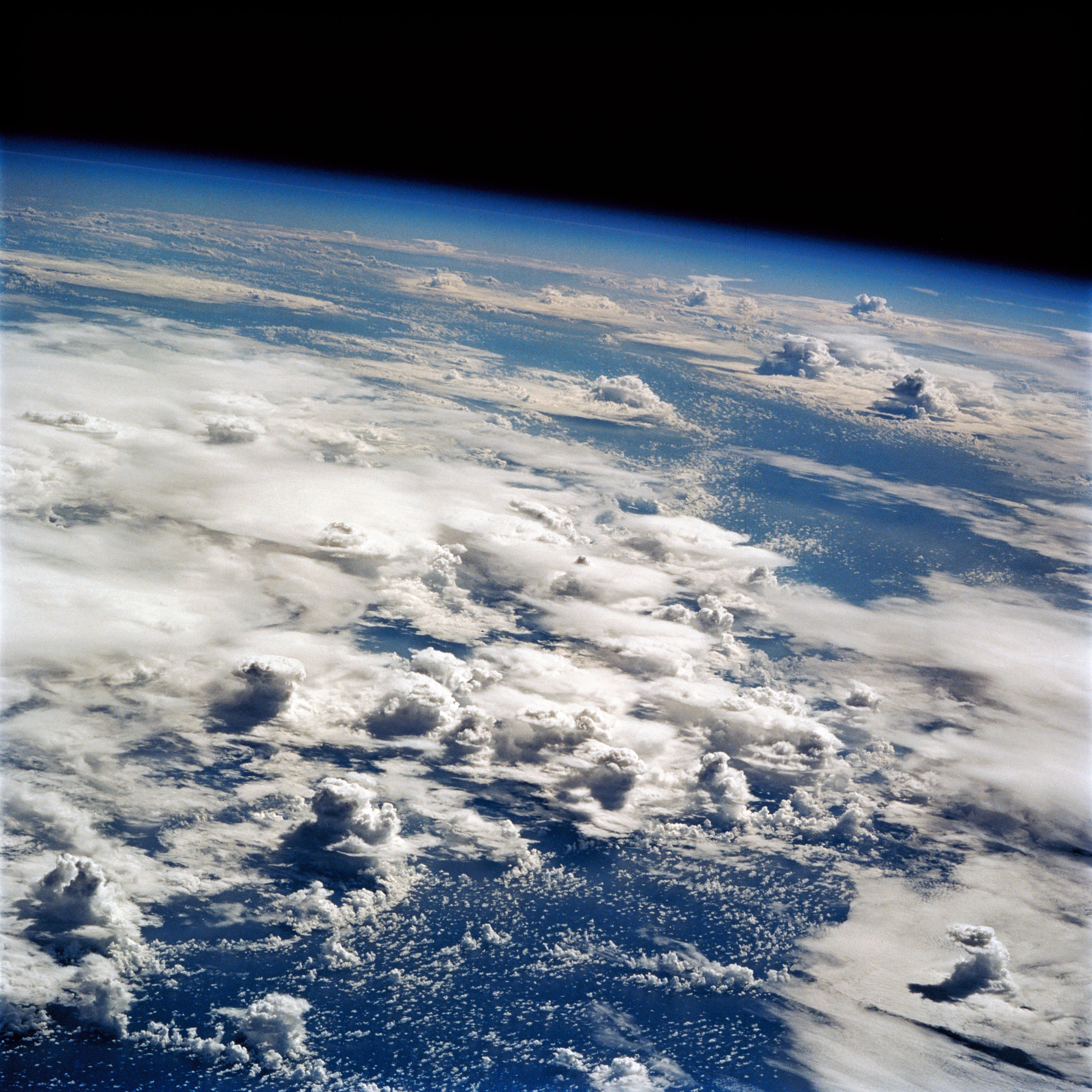 Multiple thunderstorm cells leading to Earth's atmosphere were photographed on 70mm by the astronauts, orbiting aboard the space shuttle Discovery 130 nautical miles away. These thunderstorms are located about 16 degrees southeast of Hawaii in the Pacific Ocean. Every stage of a developing thunderstorm is documented in this photo; from the building cauliflower tops to the mature anvil phase. The anvil or the tops of the clouds being blown off are at about 50,000 feet. The light line in the blue atmosphere is either clouds in the distance or an atmospheric layer which is defined but different particle sizes.